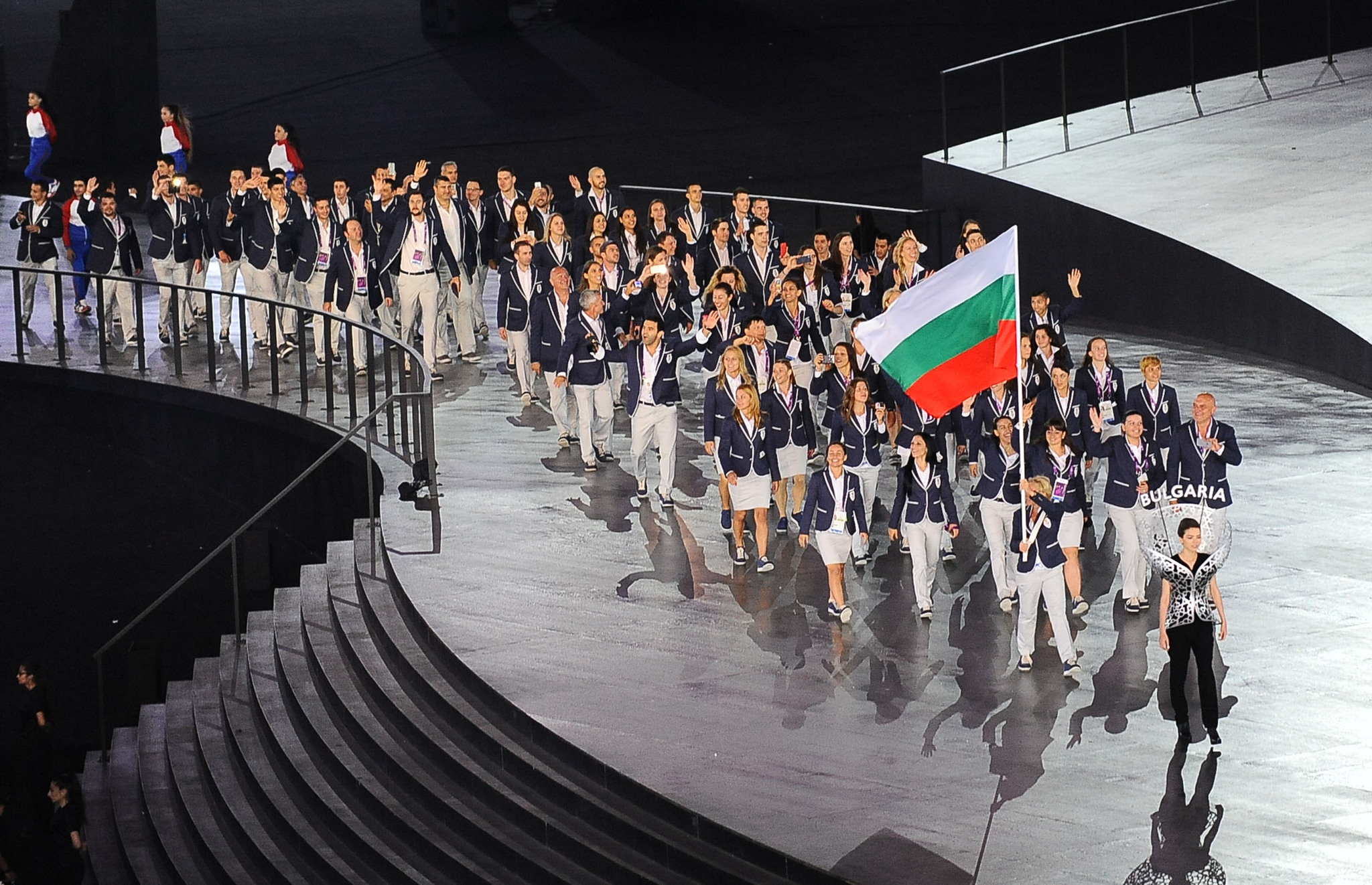 The opening ceremony of the First European games